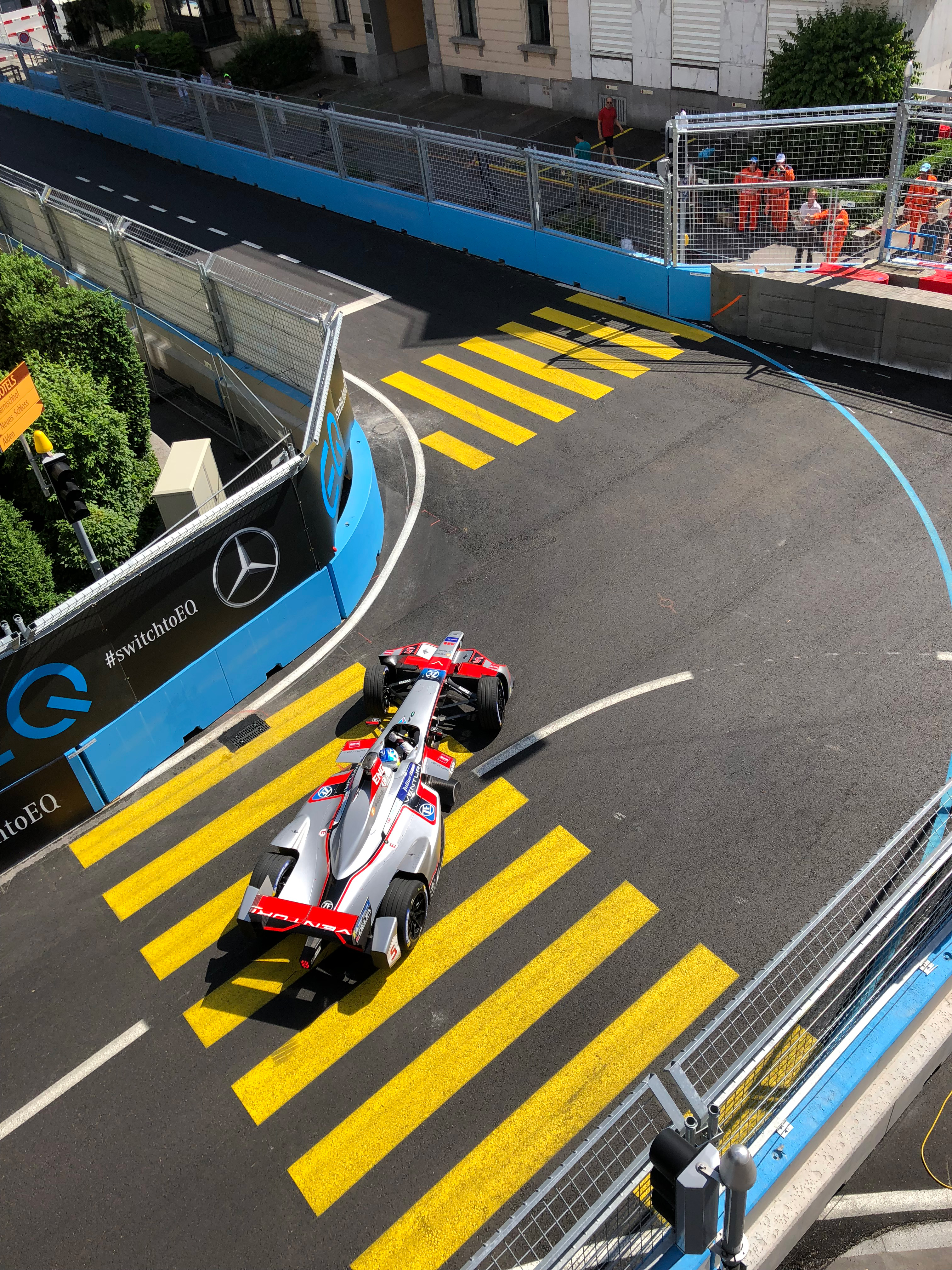 Zurich ePrix. Test run on the day before the race.